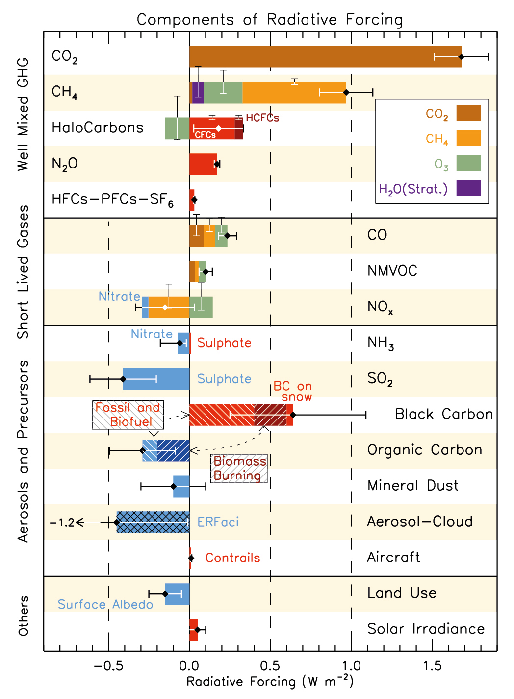 This is Figure 8.17 of Working Group 1 AR5 report by the Intergovernmental Panel on Climate Change (IPCC). The measured uncertainties of positive and negative radiative forcing exherted on the Earth's radiative balance by different natural and anthropogenic chemical species.